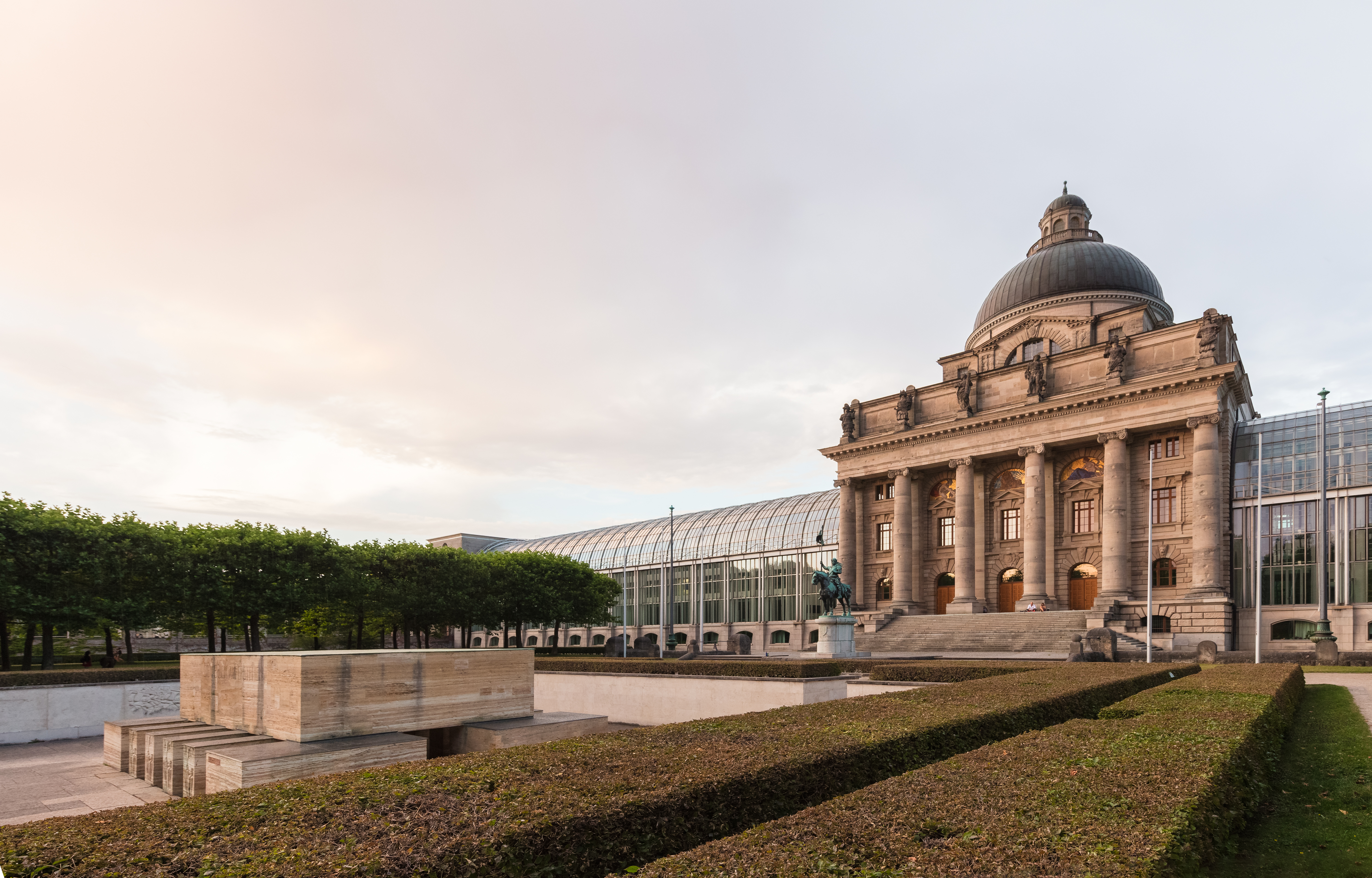 Bavarian State Chancellery, Munich, Germany